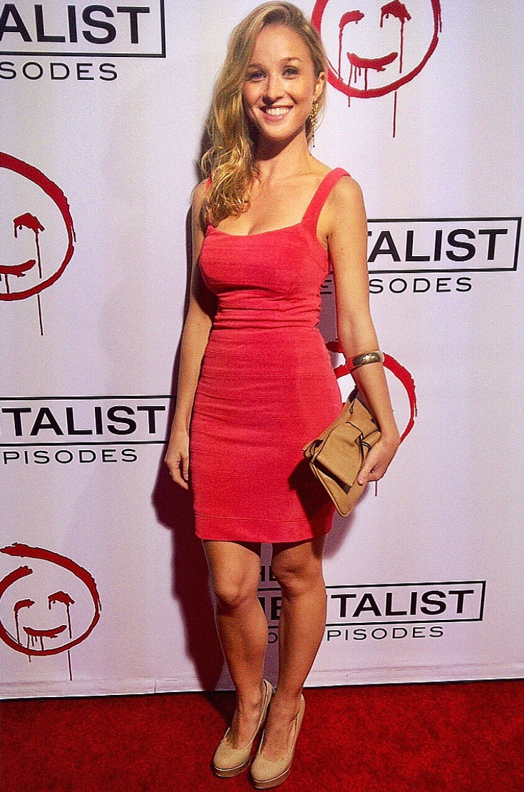 Lily Nicksay at 100th episode party for The Mentalist